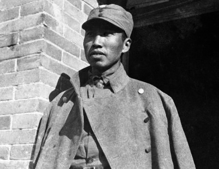 Zuo Quan 左權，中國工農紅軍和八路軍高級指揮員，著名軍事家。